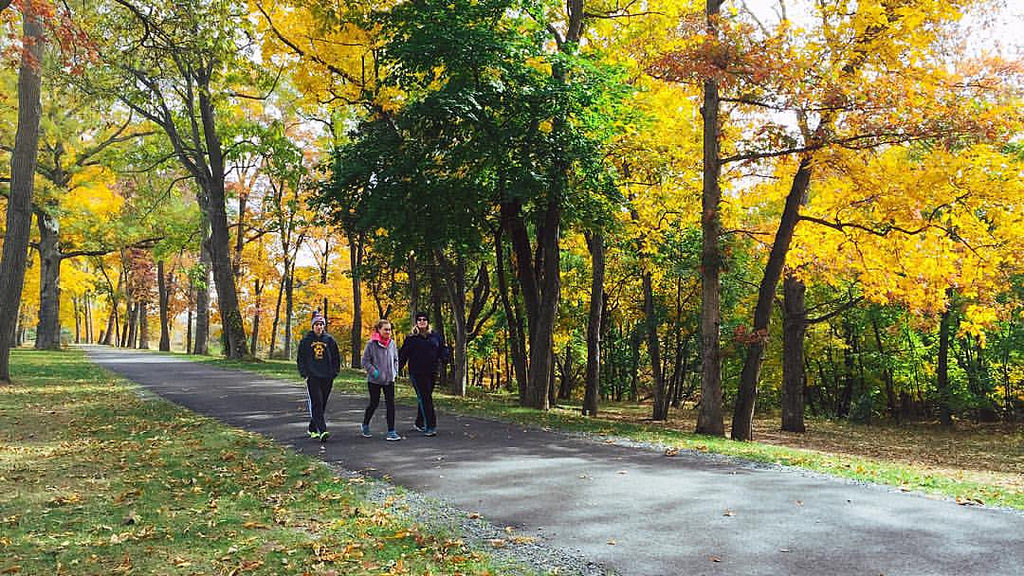 Residents enjoying a walk in Skillman Park.